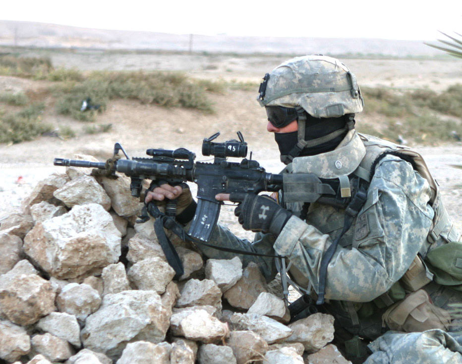 Spc. Louie O. Bedea, from Company B, 4th Squadron, 14th Cavalry Regiment, attached to the 2nd Marine Division, takes cover during a counterinsurgency operation near Rawah, Iraq. This photo appeared on